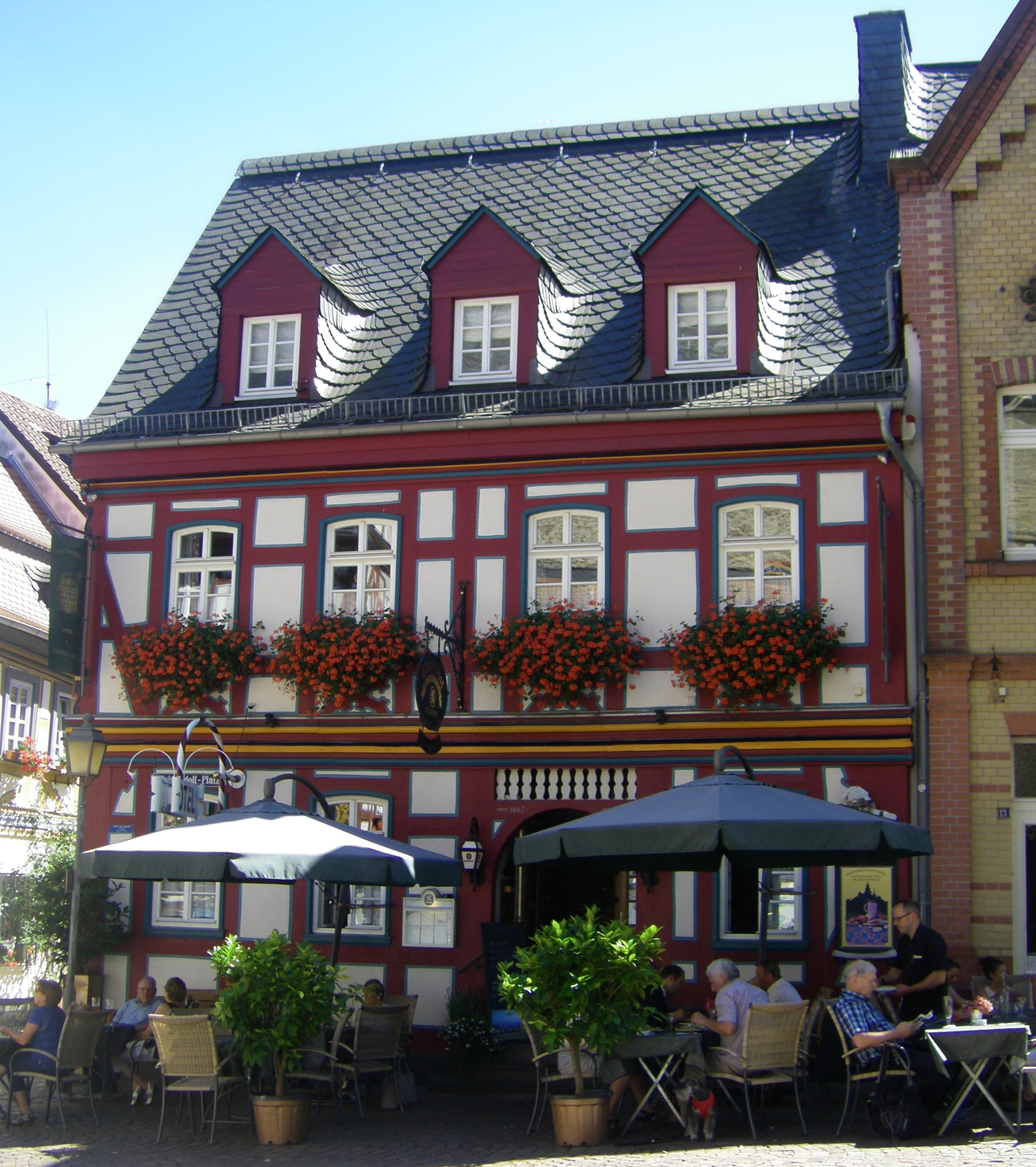 Taunushof in Idstein, Germany. This was one of the original locations of the Elvis-Presley-film G.I. Blues